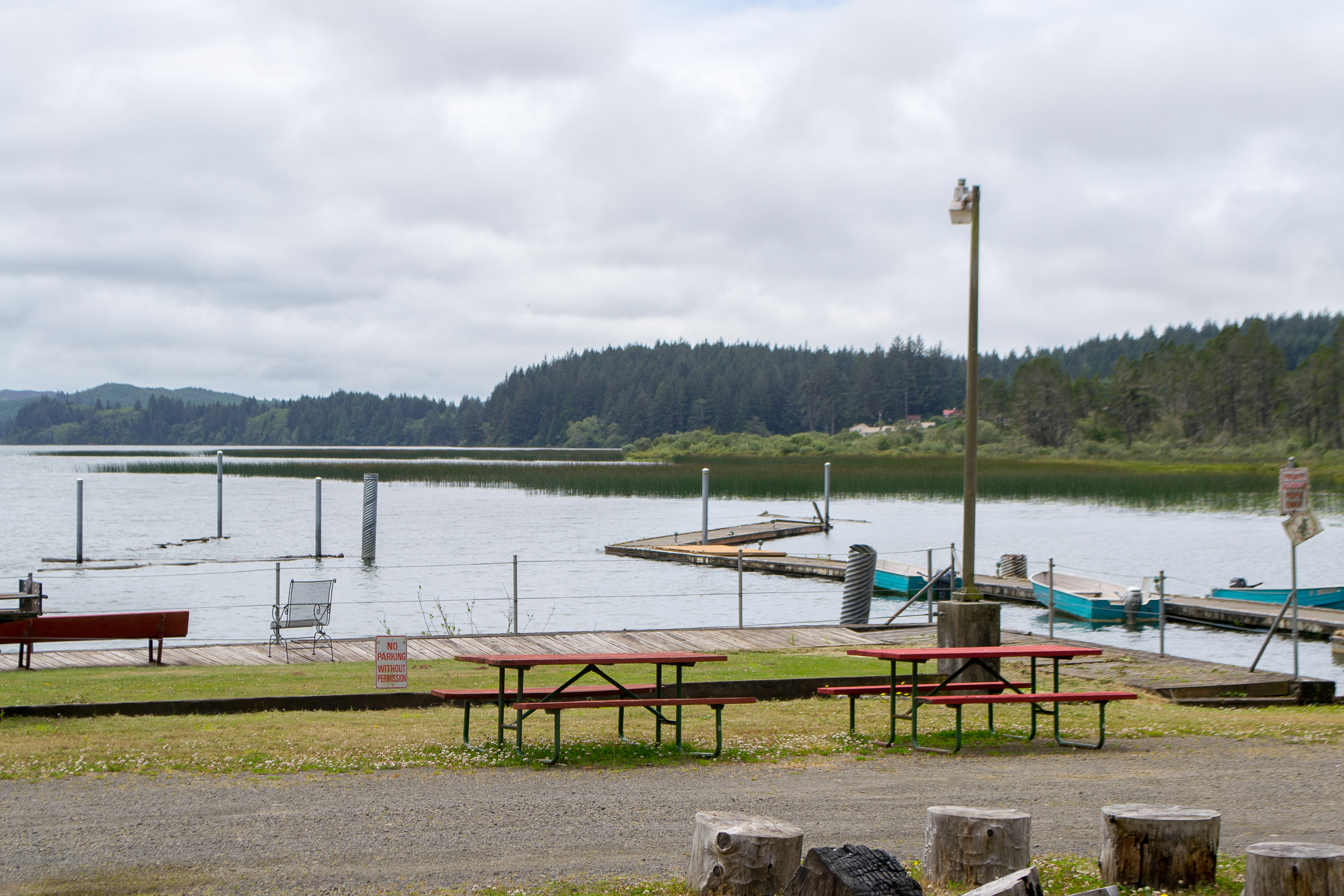 The North Beach recreation area at Siltcoos Lake, Oregon